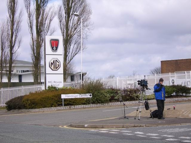 Camera Man Outside Longbridge Motorworks.